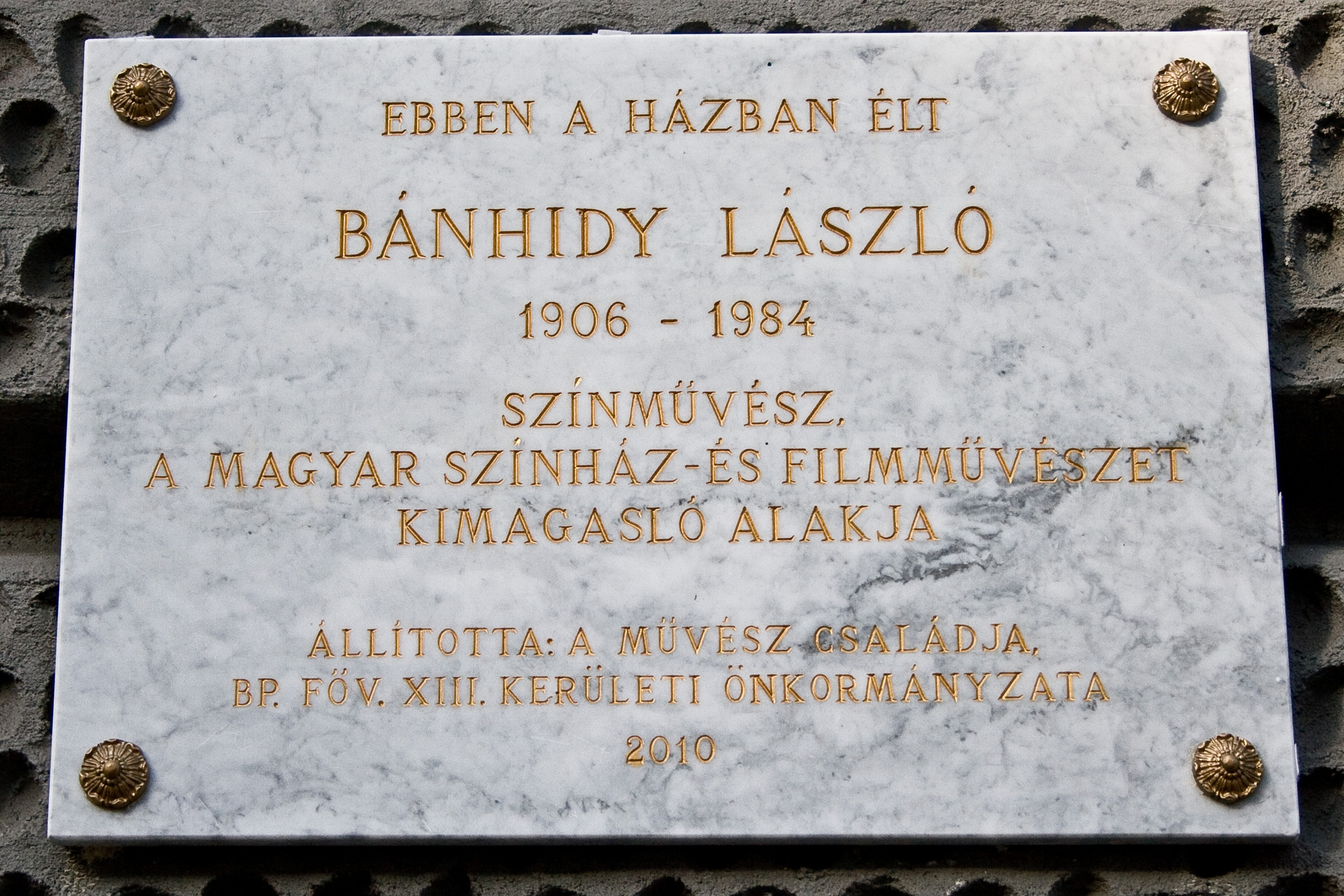 Commemorative plaque of László Bánhidy in Budapest District XIII, Szent István Boulevard No 22